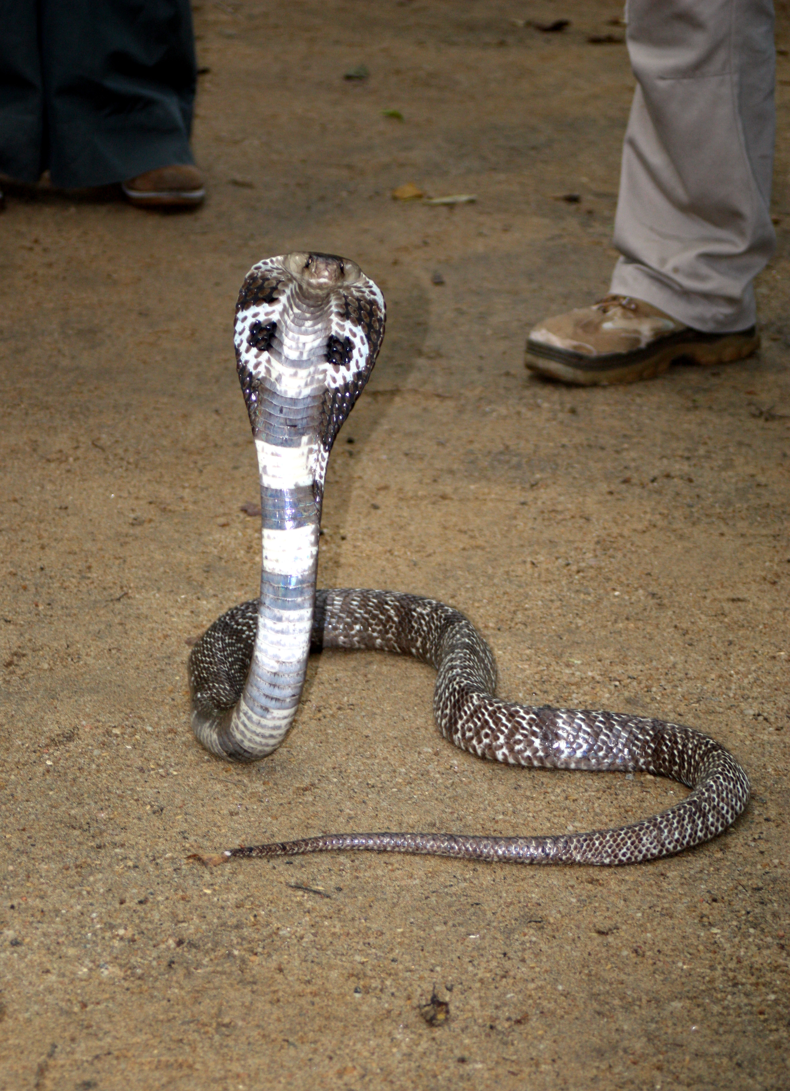 Full body view of an upright Indian Cobra. Photographed at the Kandalama Hotel Ecology Park in Sri Lanka. The snake had been injured on the hotel's estate and was treated at the ecology park.